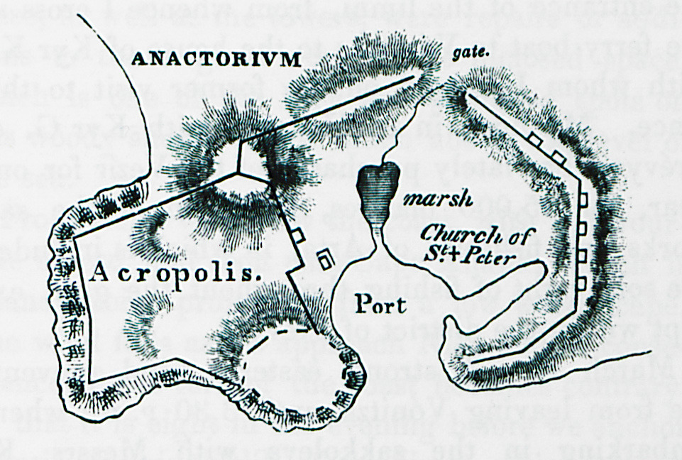 Map of ancient Anaktorion - Leake William Martin - 1824